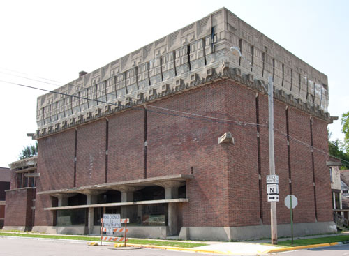 Full view of A.D. German Warehouse in Richland Center, Wisconsin. Designed Frank Lloyd Wright who was born in Richland Center.